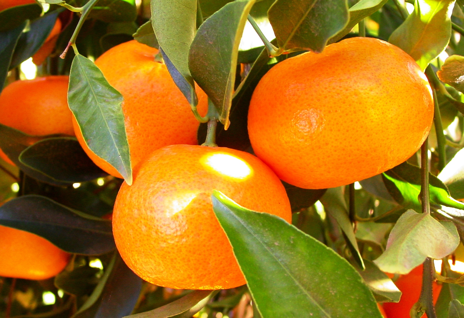 Merbeingold Mandarin